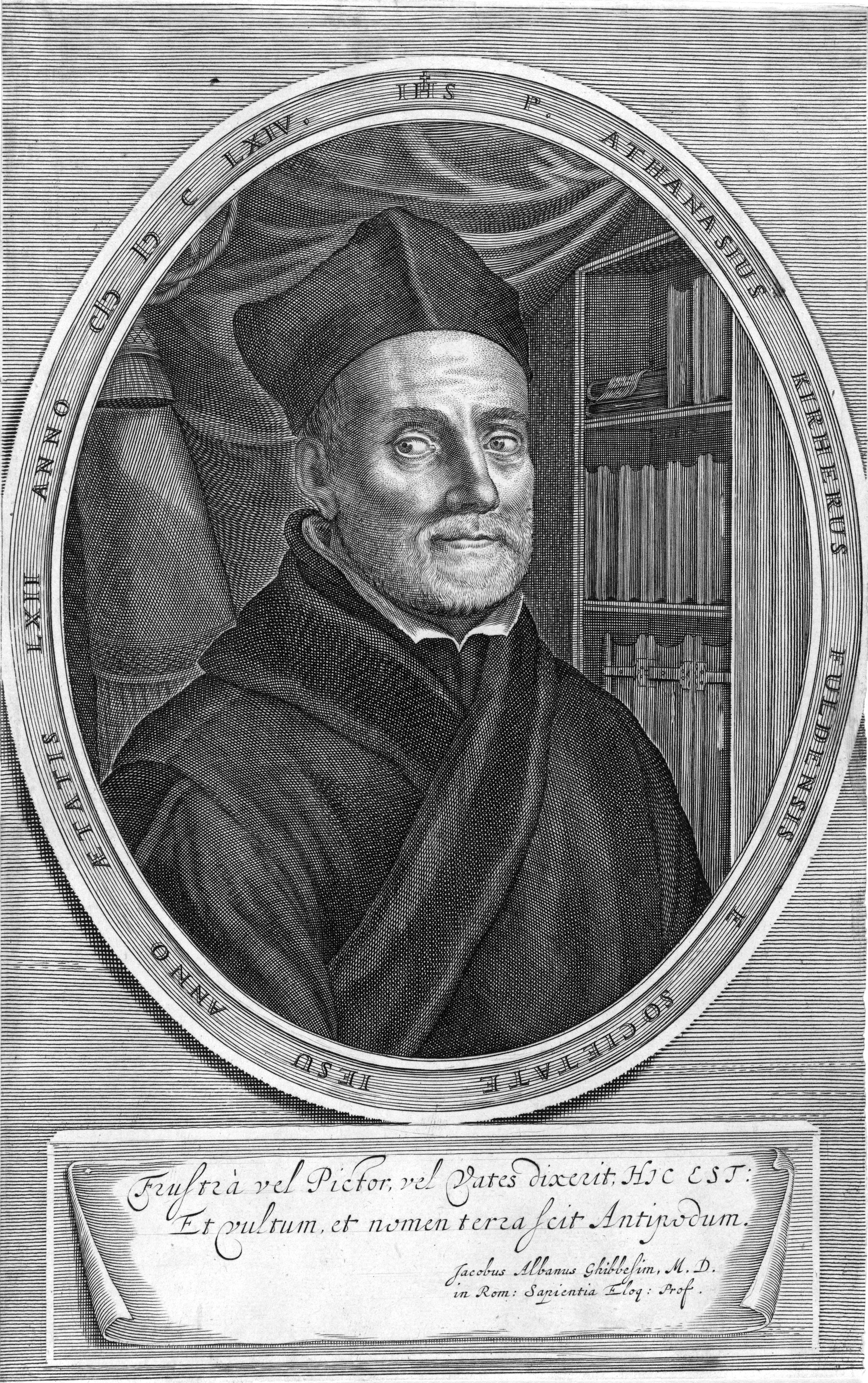 Depicted person: Athanasius Kircher